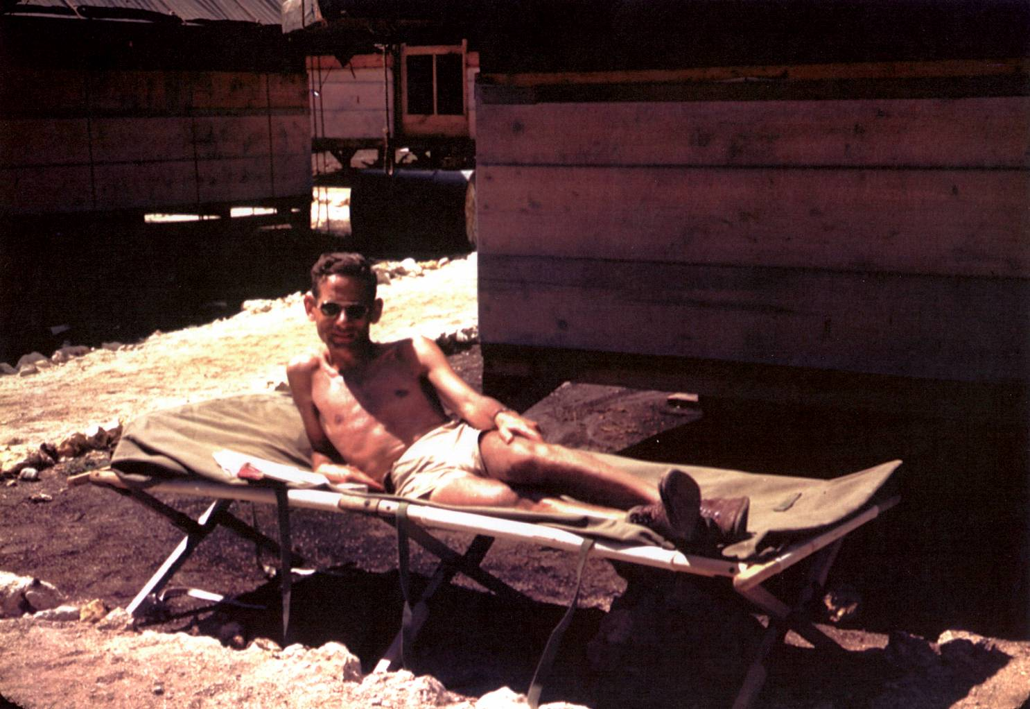 Physicist Robert Serber on Tinian in 1945.